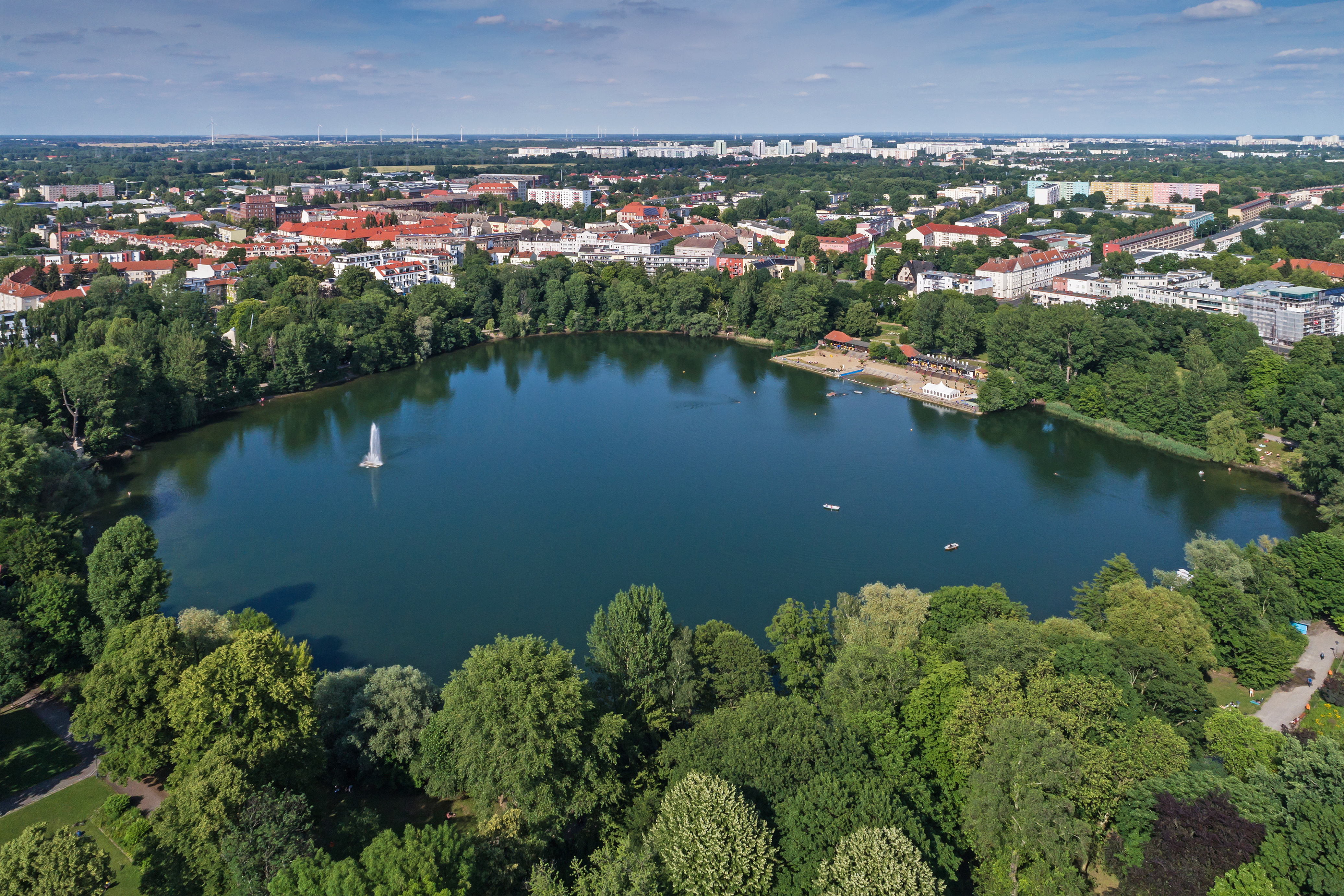 Aerial photo of Lake Weissensee in Berlin (Germany)